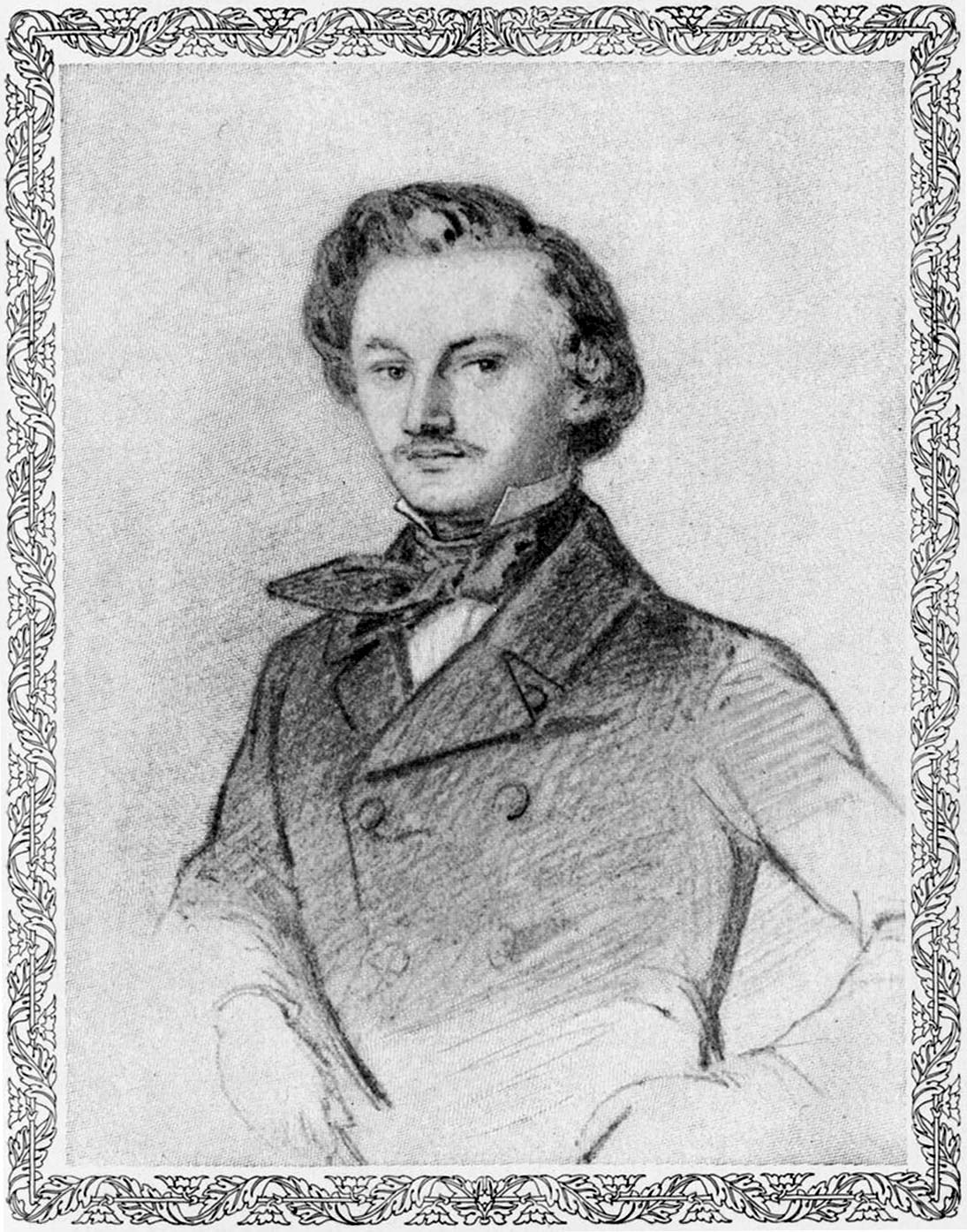 Half-length ortrait drawing in pencil of Carl Schurz as a student. Made while he was in London by a fellow patron of Baroness Brüning's salon in St. John's Wood.